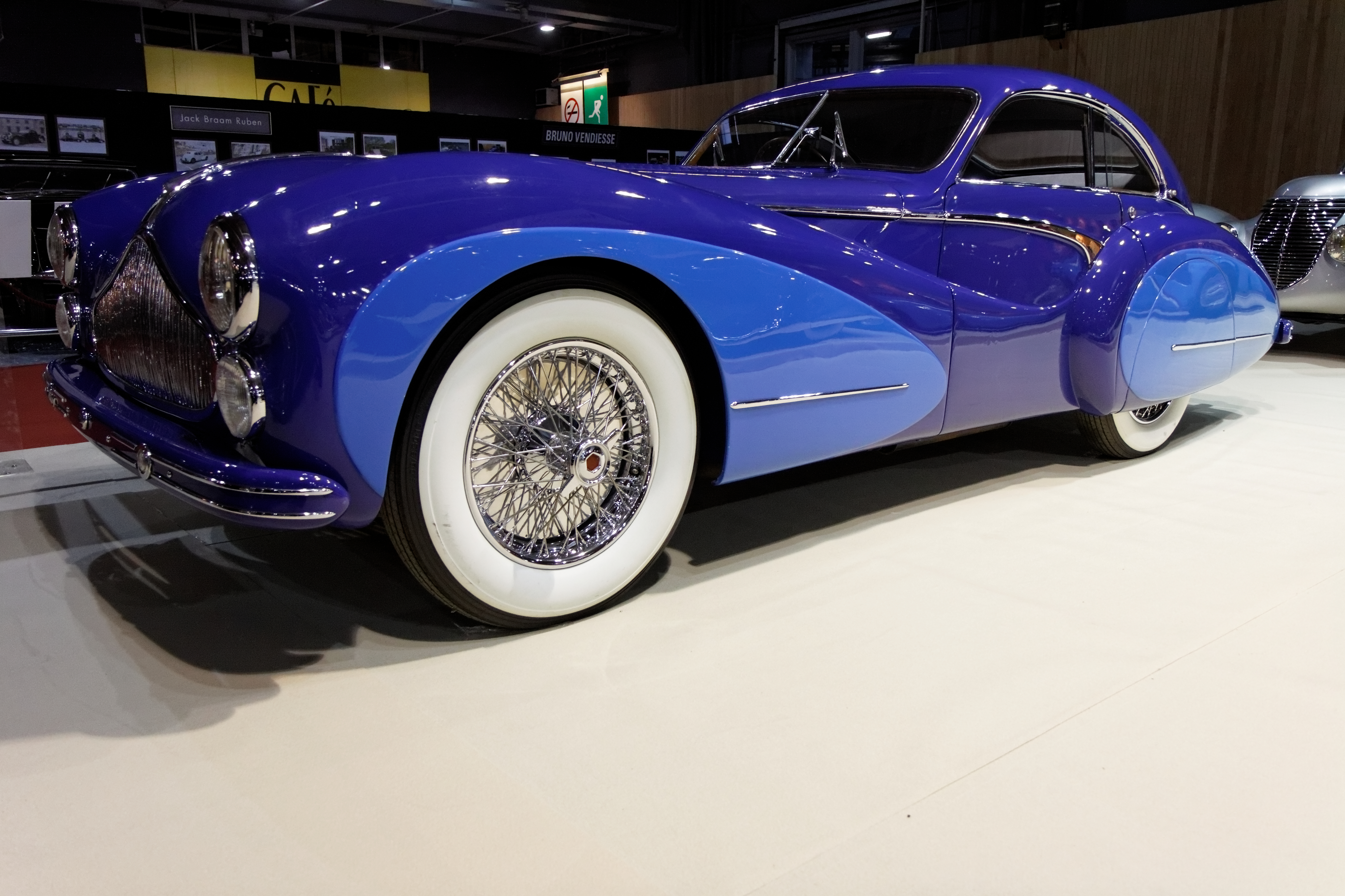 Talbot Lago type 26 grand sport